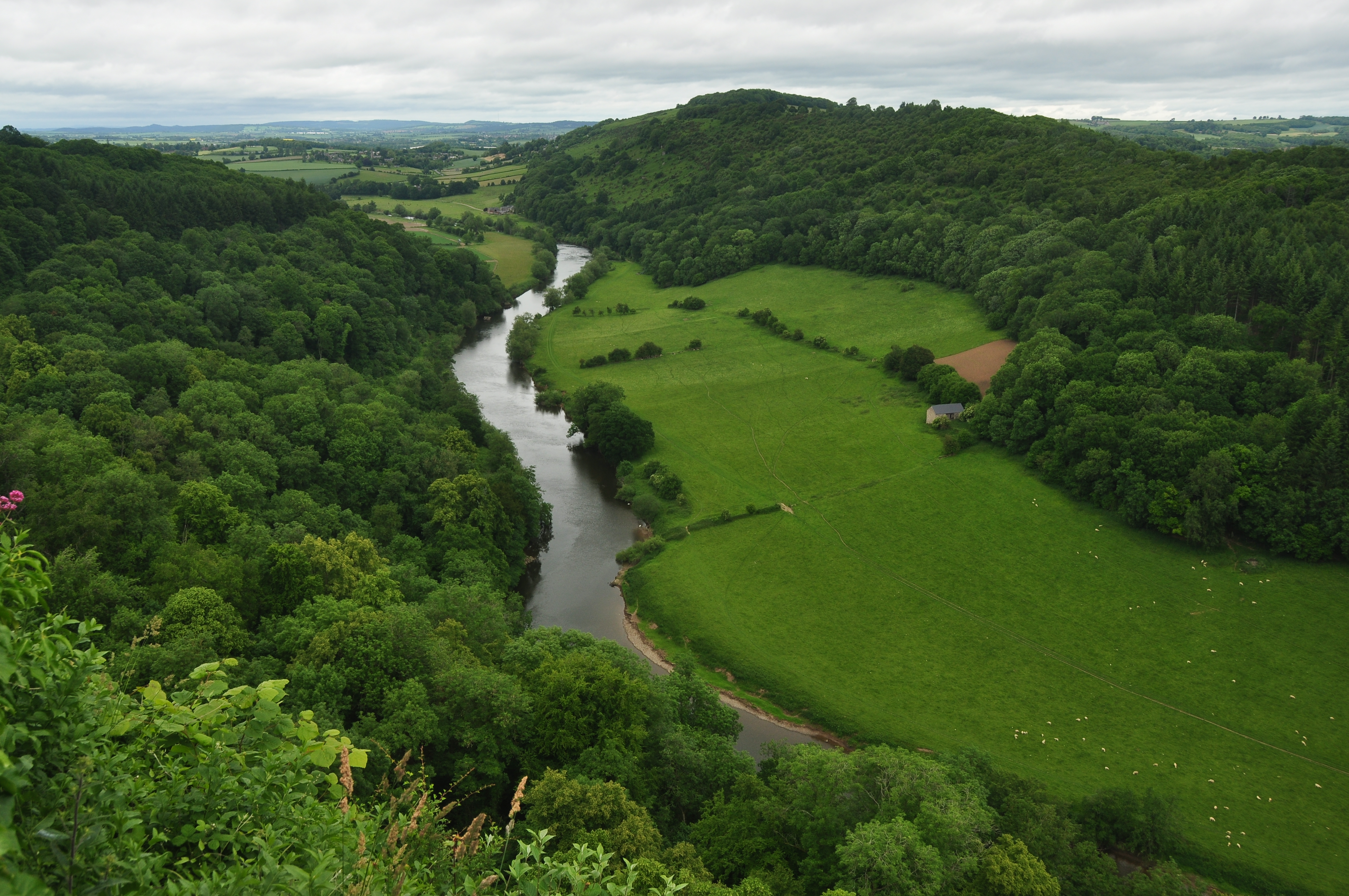 River Wye at Symonds Yat